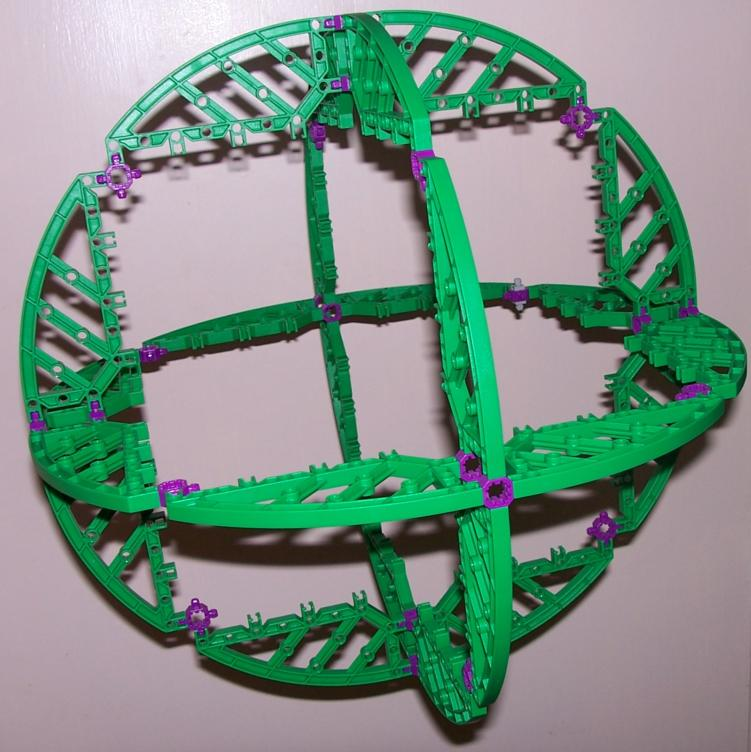 Custom model